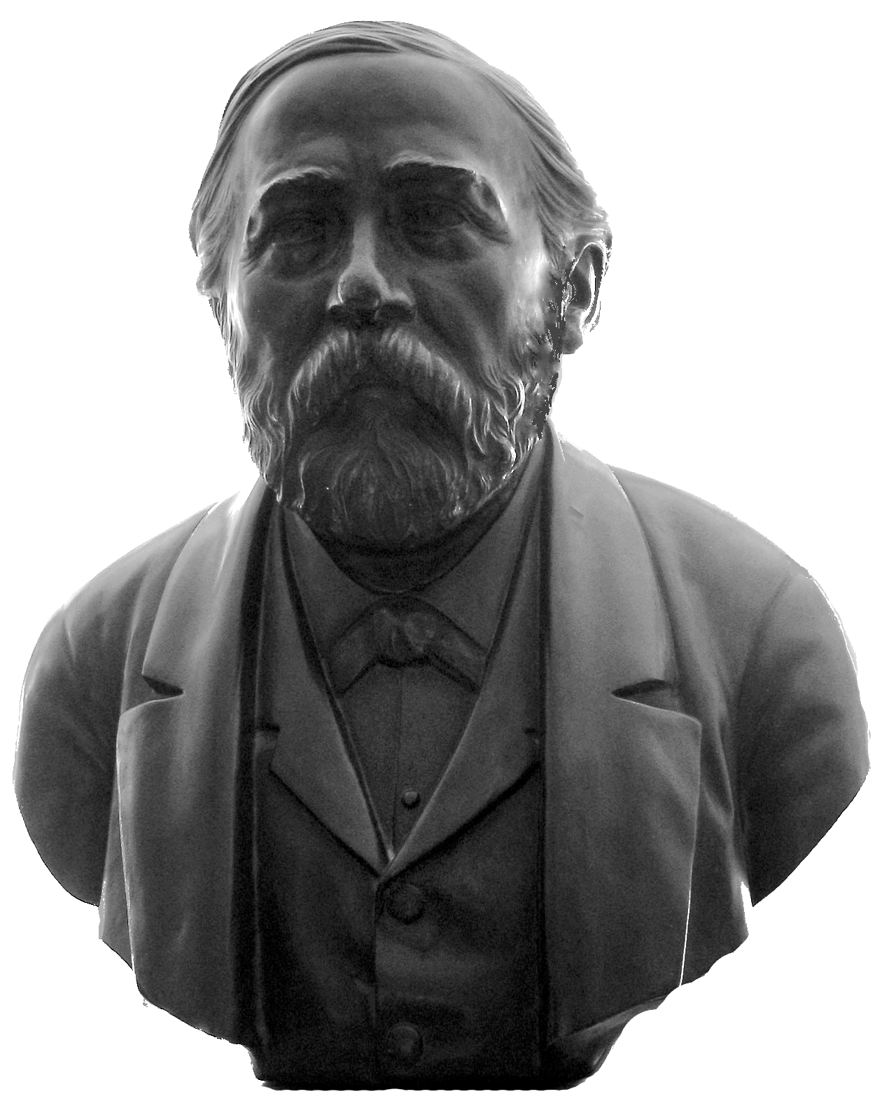 Dionýz Štúr, Slovak Paleontologist and geologist, pioneer of Slovak Geology